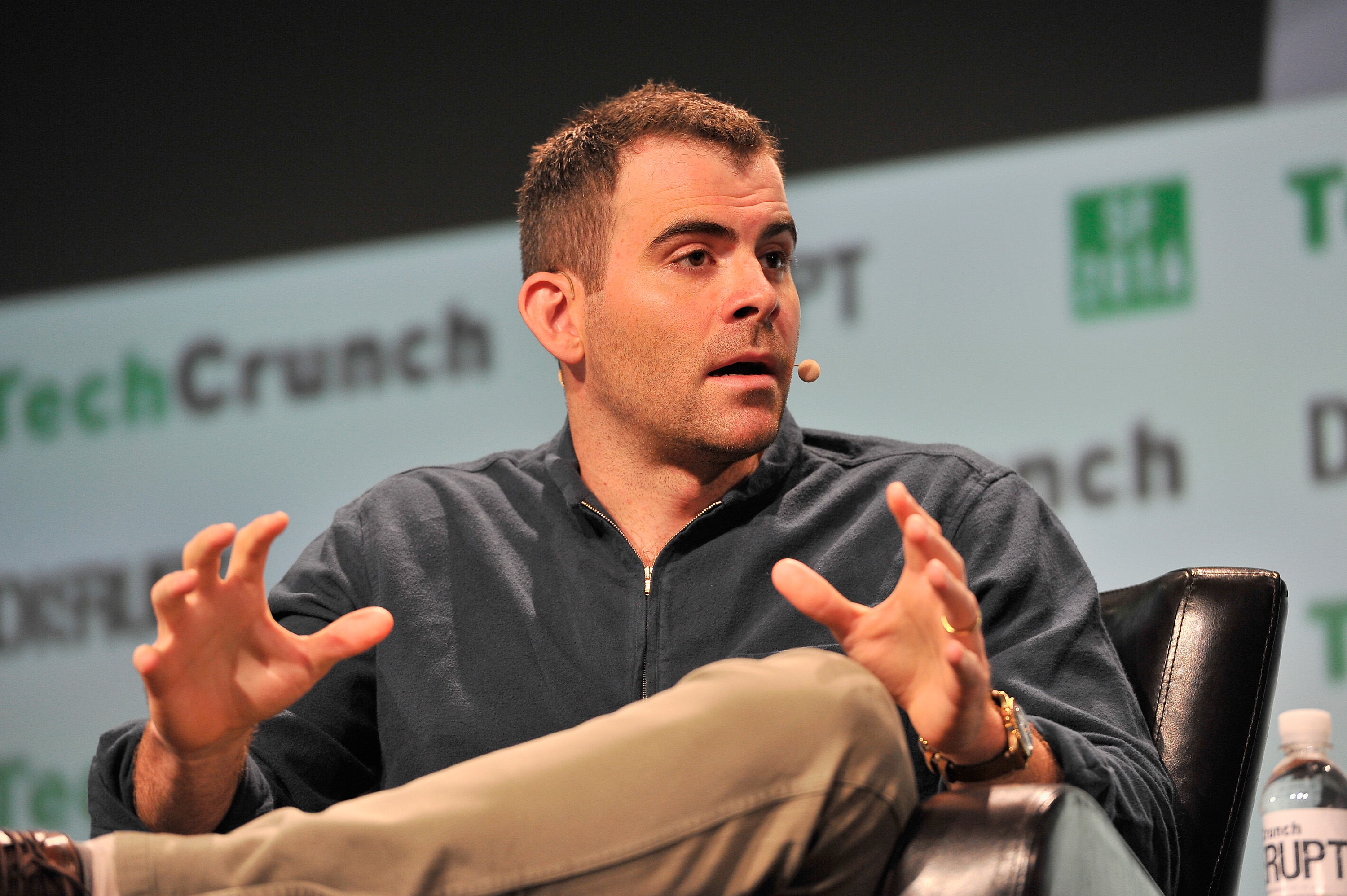 Adam Mosseri